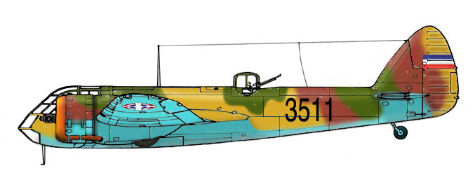 Blenheim of RYAF